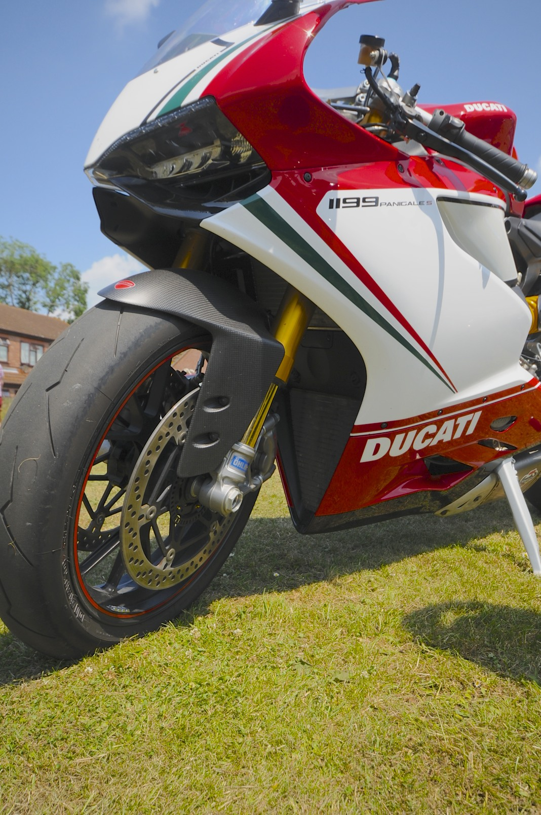 Ducati Panigale 1199 Tricolorie Baston Car Show 2013